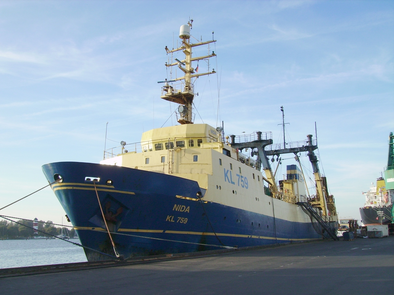 The trawler "Nida" which is registered in Lithuania